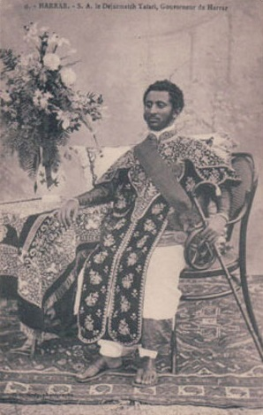 Photo of Tafari Makonnen, Dejazmach (governor) of Harrar in the early 1910s. Tafari is the future Haile Selassie, emperor of Ethiopia. Postcard issued c. 1910-1912.